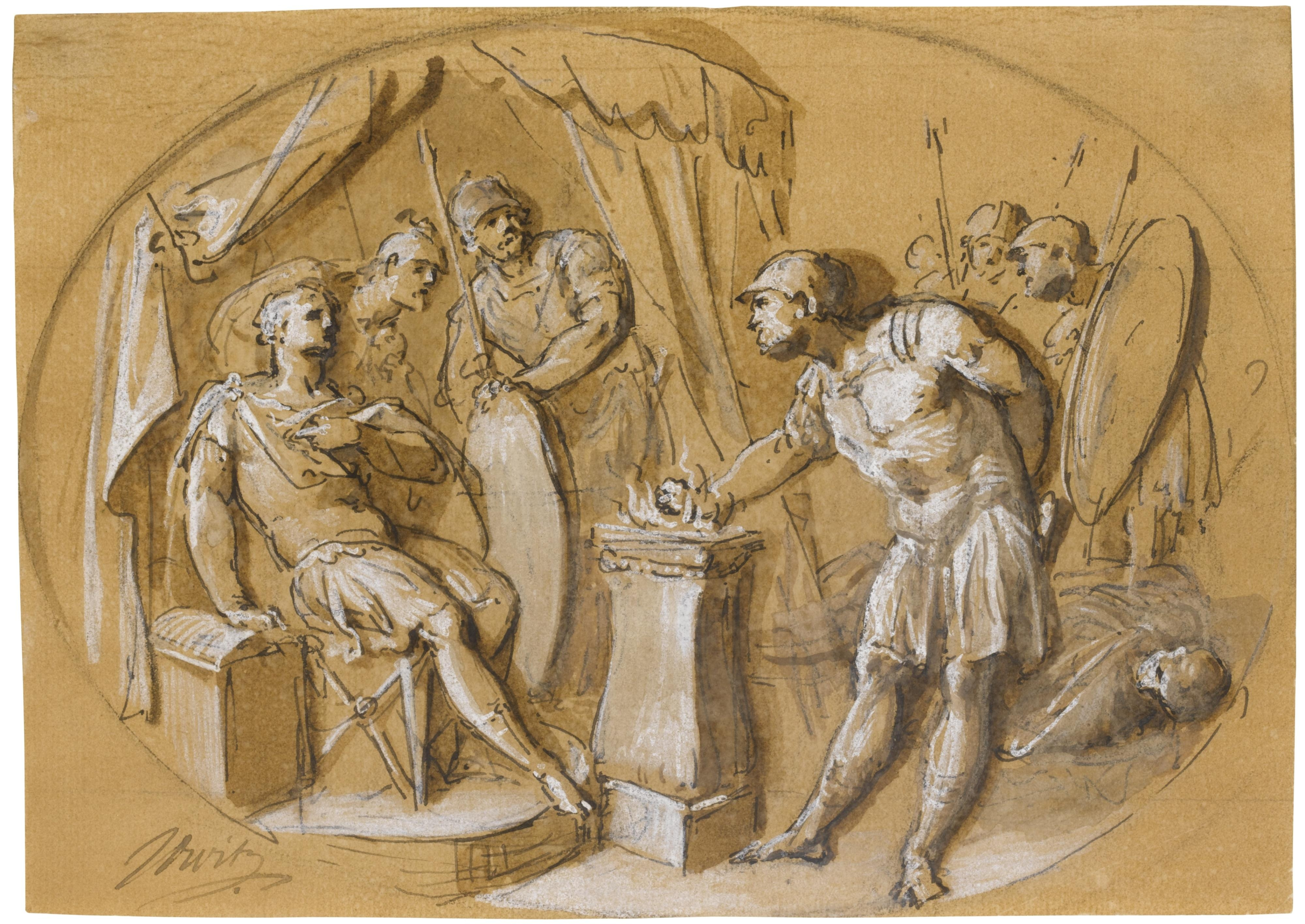 By Jacob de Wit Mutius Scaevola proves his bravery Artwork by Jacob de Wit, Mutius Scaevola proves his bravery, Made of Pen and black ink with brown wash heightened with white over black chalk on brown paper Artwork Details Dimensions: 168 by 236 mm Medium: Pen and black ink with brown wash heightened with white over black chalk on brown paper Signed